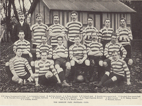 Rosslyn Park FC of London rugby union team.